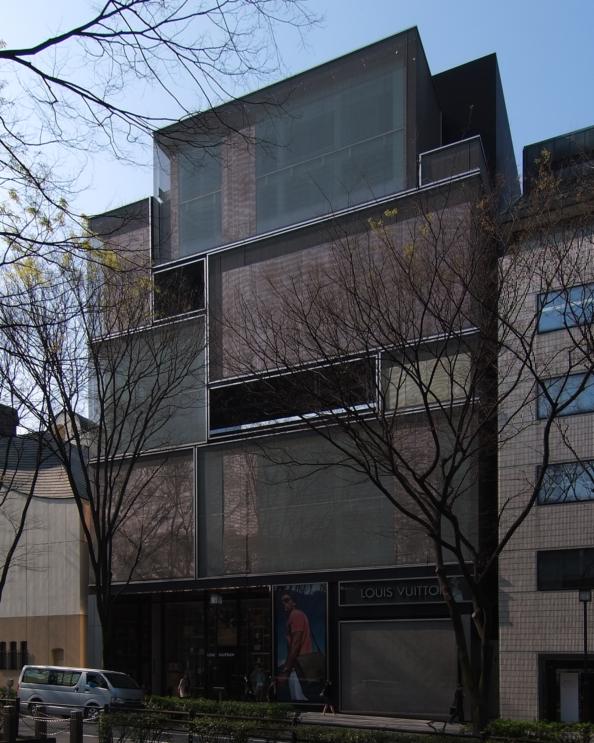 Louis Vitton Omotesando, at Omotesando, Tokyo, Japan, designed by Jun Aoki in 2002.